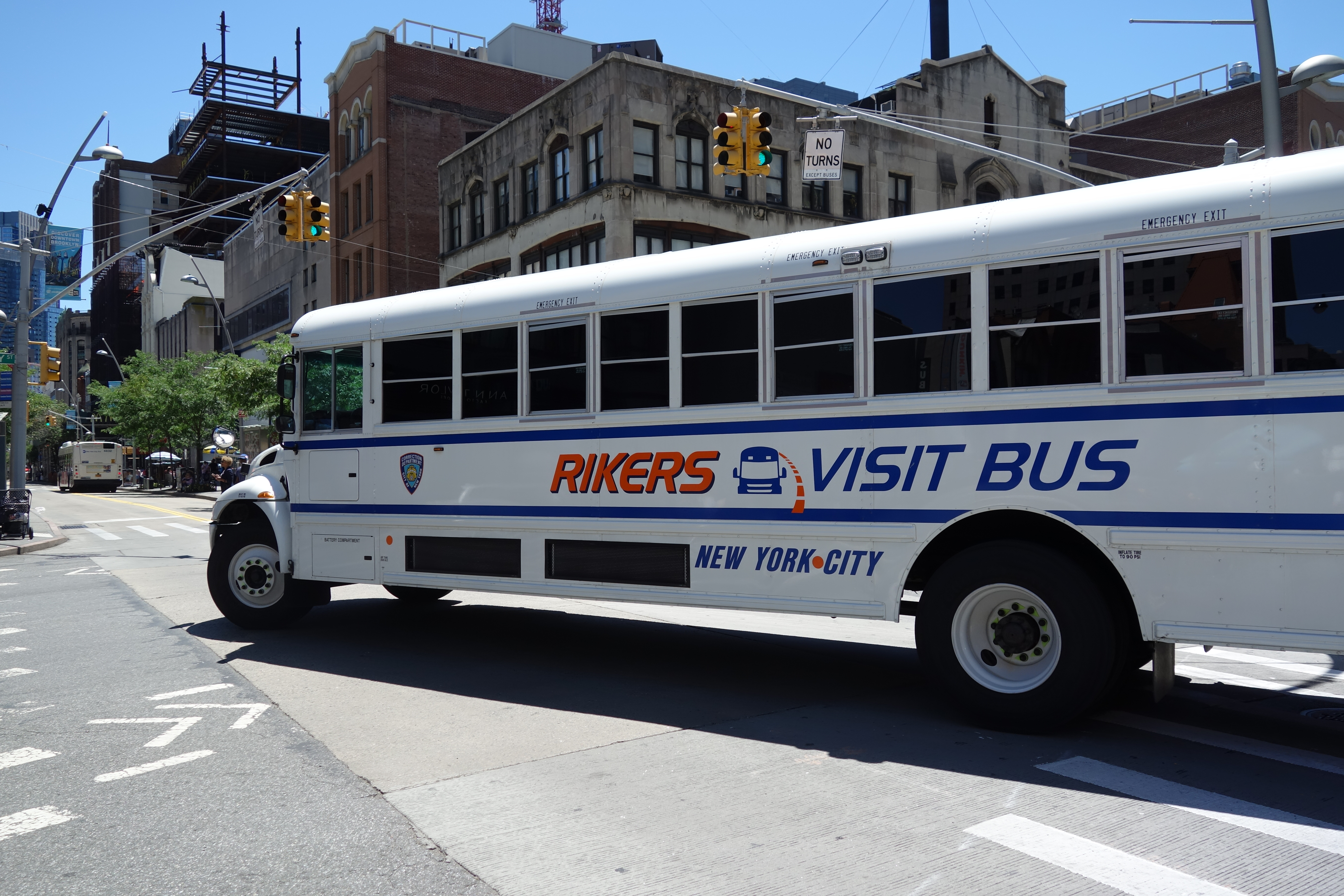 A Rikers Island Visit Bus turning north from Fulton Mall onto Jay Street in Downtown Brooklyn.